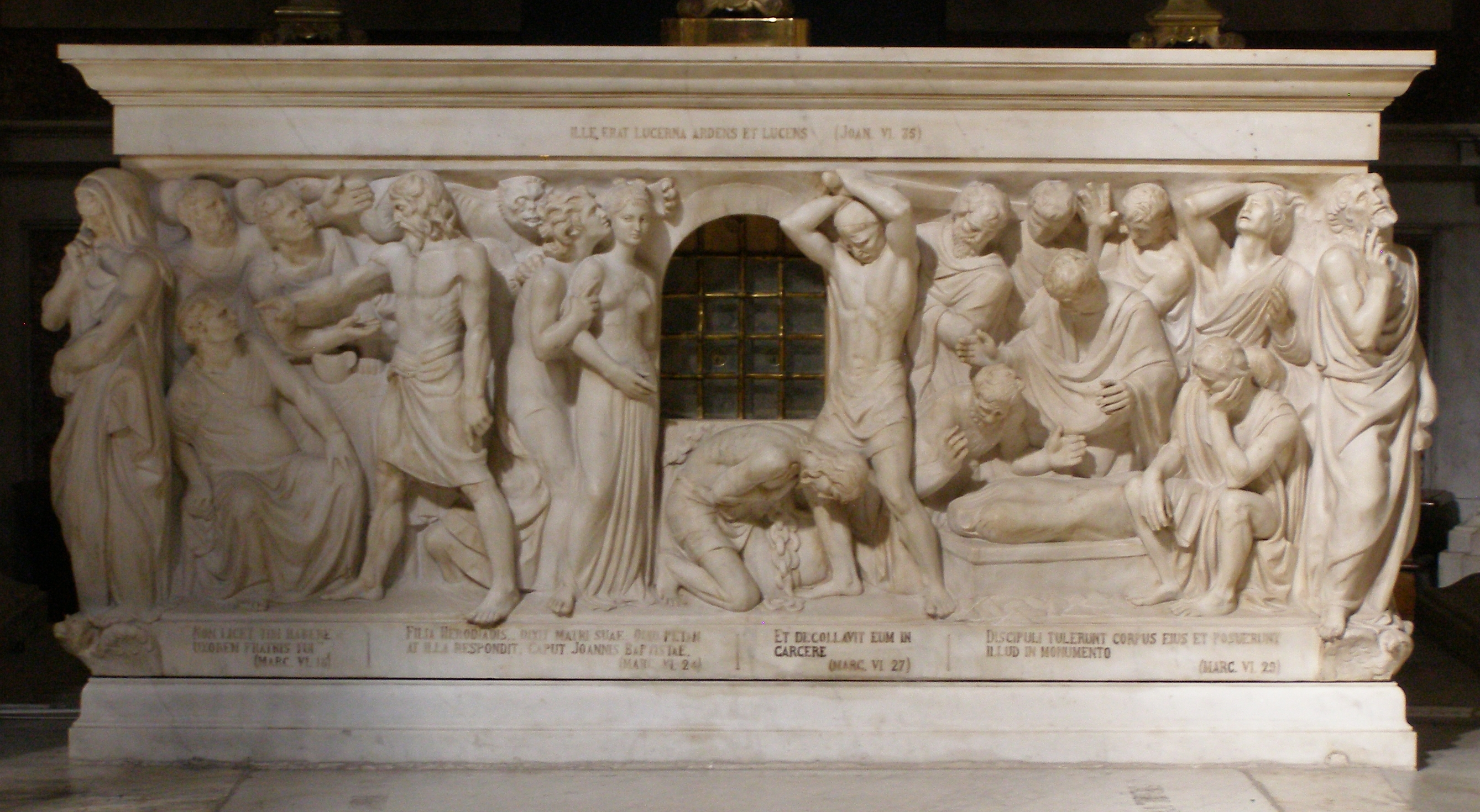 Genoa - St. John's chapel in the San Lorenzo Cathedral